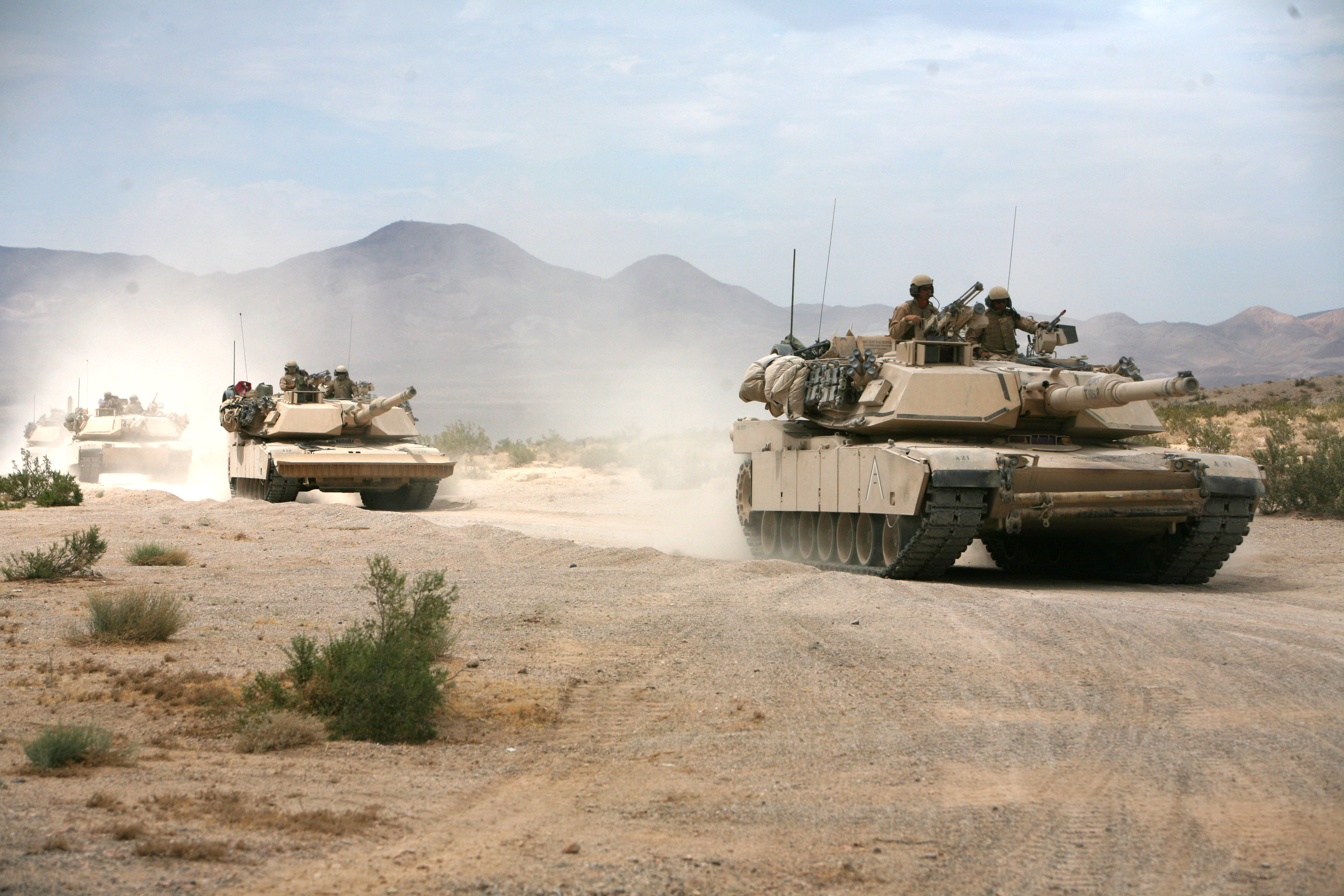 1st Tank Battalion, 1st Marine Division, participated in the annual Summer Heat training exercise at Marine Corps Air Ground Combat Center Twentynine Palms, Calif., June 26 to July 2. This training exercise is one of the largest that the Marines from this battalion participate in during the year. Over the course of the exercise the battalion conducted live-fire maneuvers and a massive force-on-force training evolution.